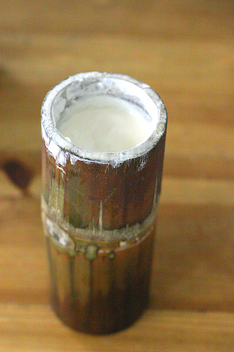 Dadiah, traditional West Sumatran water buffalo yogurt